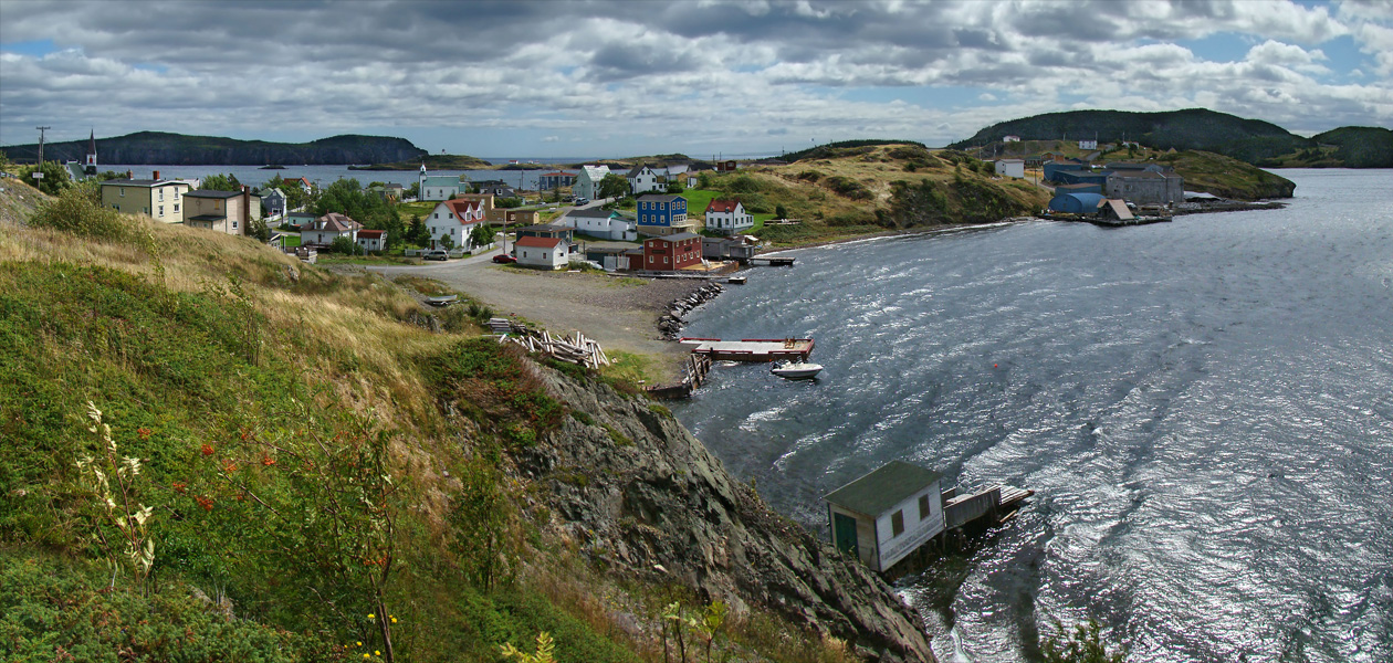 Trinity, Bonavista Peninsula, Eastern Newfoundland, Canada. The visible landmarks are: on the left, the St. Paul's Anglican Church (1892-94); in the centre, the Roman catholic Church of the Most Holy Trinity (1833); both were designated Heritage Structure by the Heritage Foundation of Newfoundland and Labrador in 1989 and 2005 respectively.